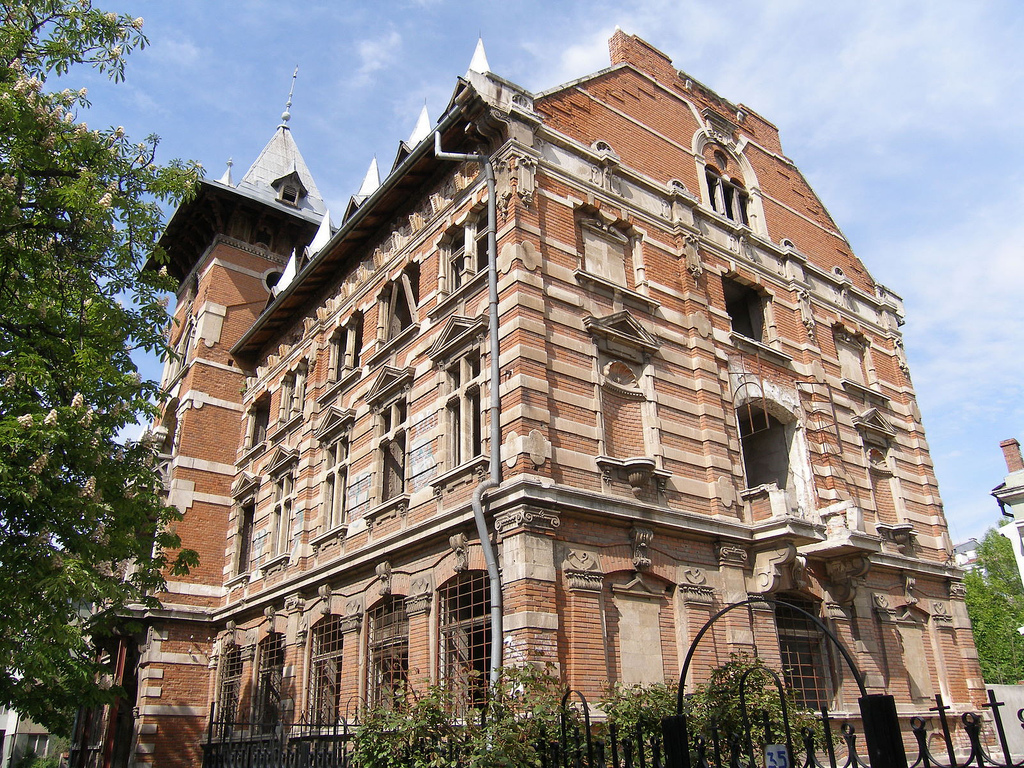 Old High School of Music, Rousse